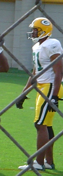 Green Bay Packers training camp in 2004. L-R: #89 wide receiver Robert Ferguson; #83 kick returner w: Antonio Chatman |Antonio Chatman , #86 wide receiver Carl Ford, #84 wide receiver Javon Walker, and #81 wide receiver Andrae Thurman.